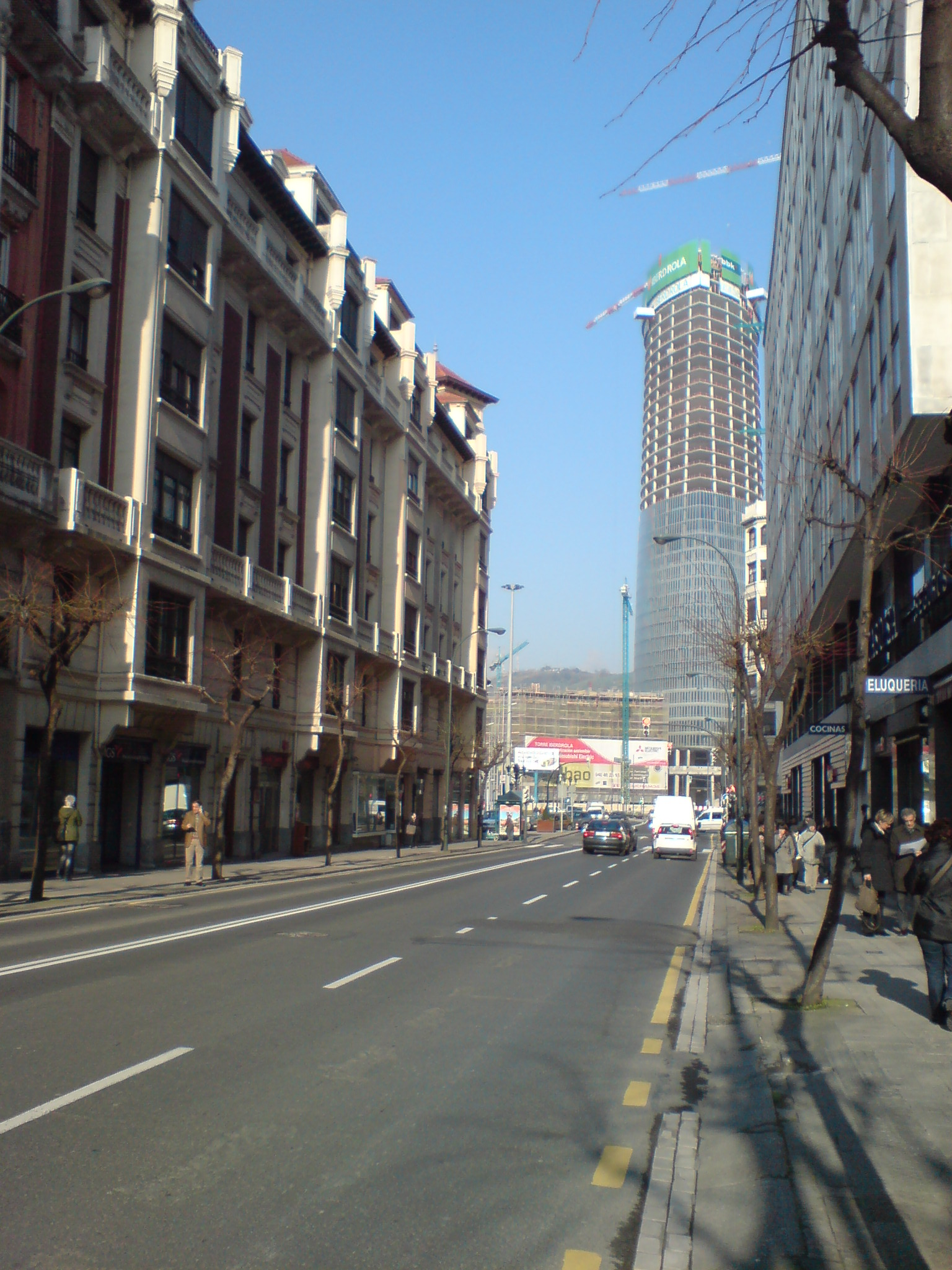 Iberdrola Tower as seen from Elkano street.